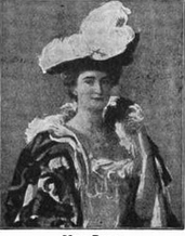 Lilian Bell (1905)